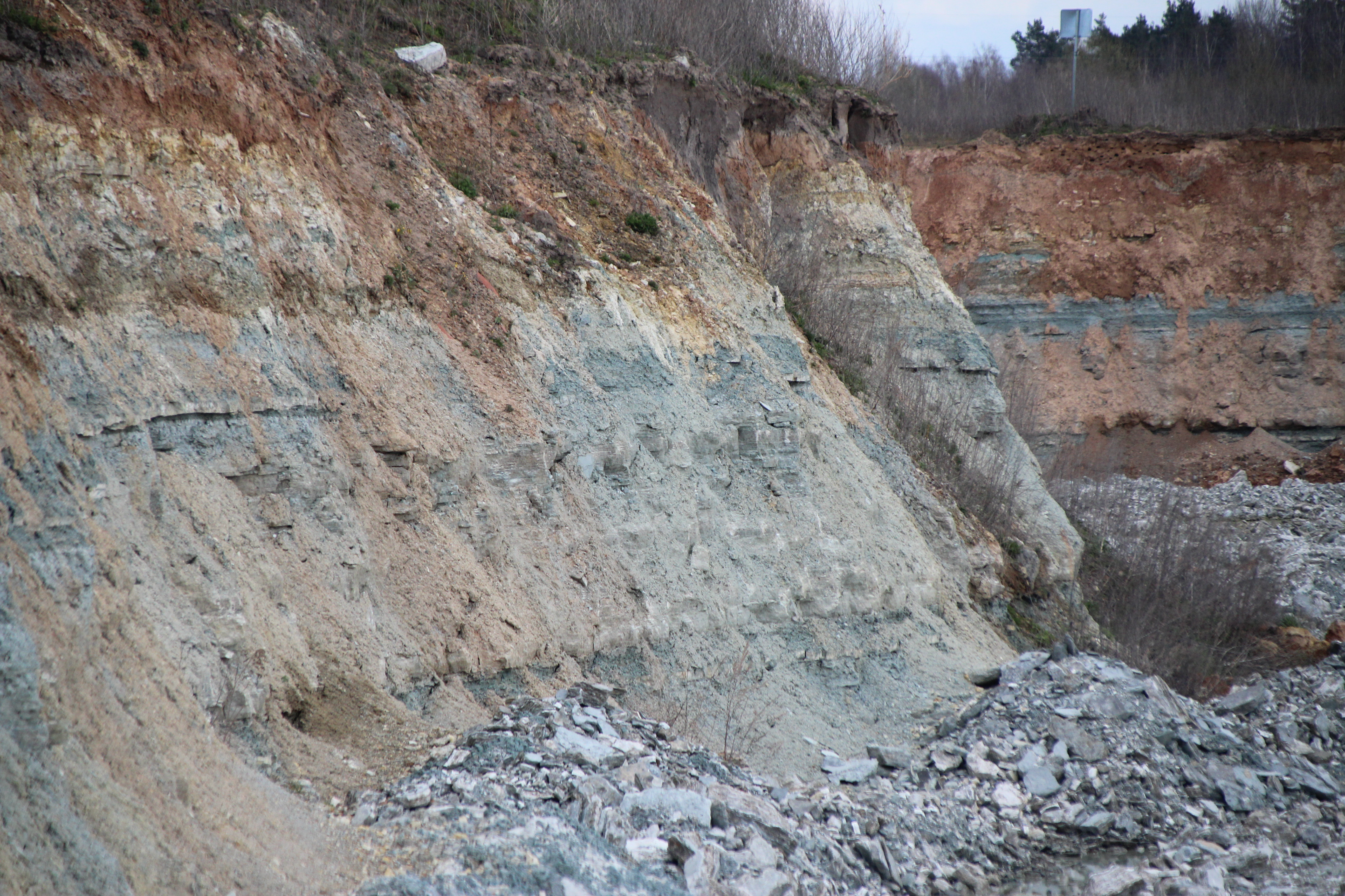 Salaspils ģipša karjers (Gypsum mine), Bajāri, Salaspils pagasts, Salaspils novads, Latvia.